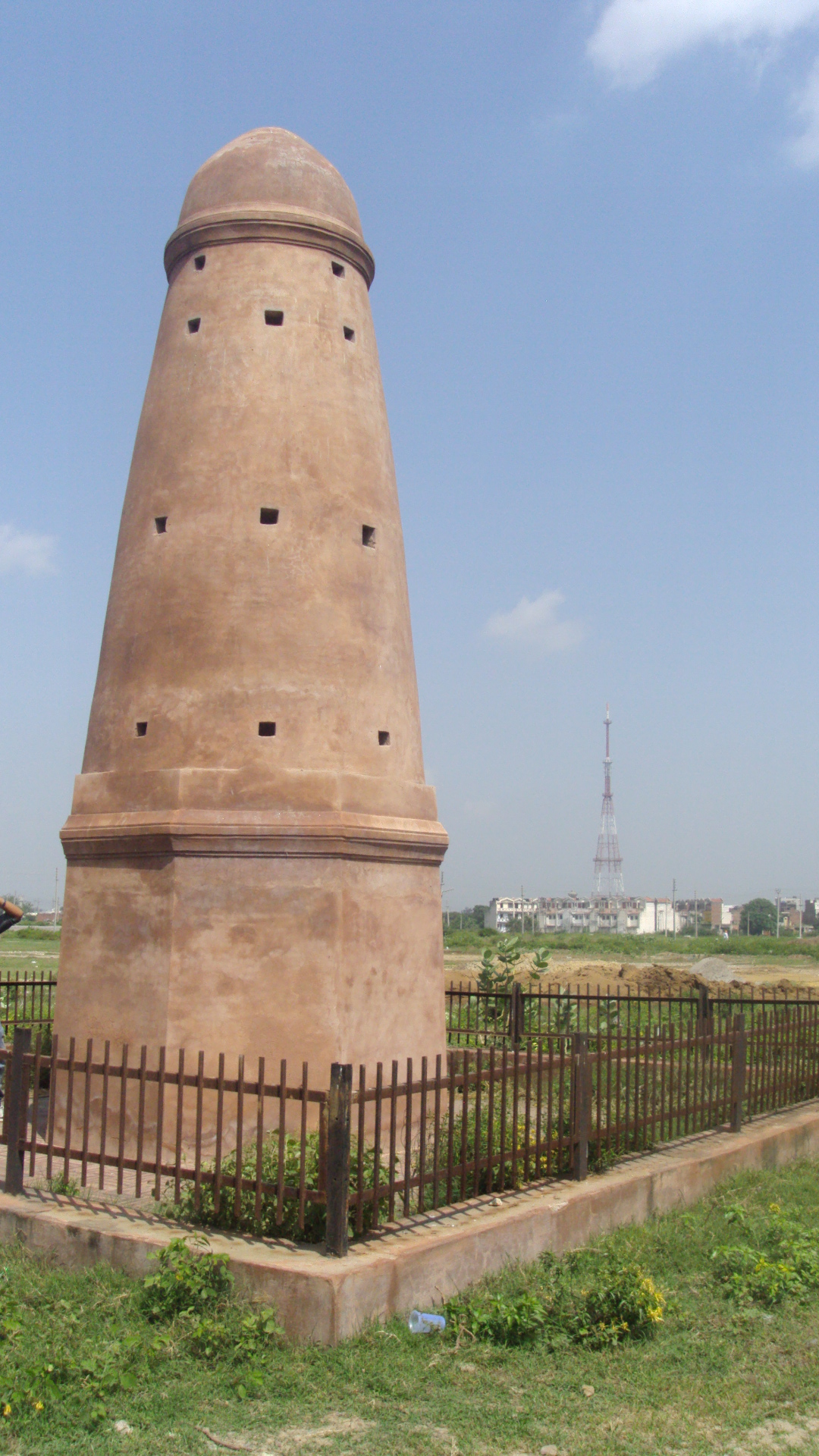 Kos Minar in tirawadi